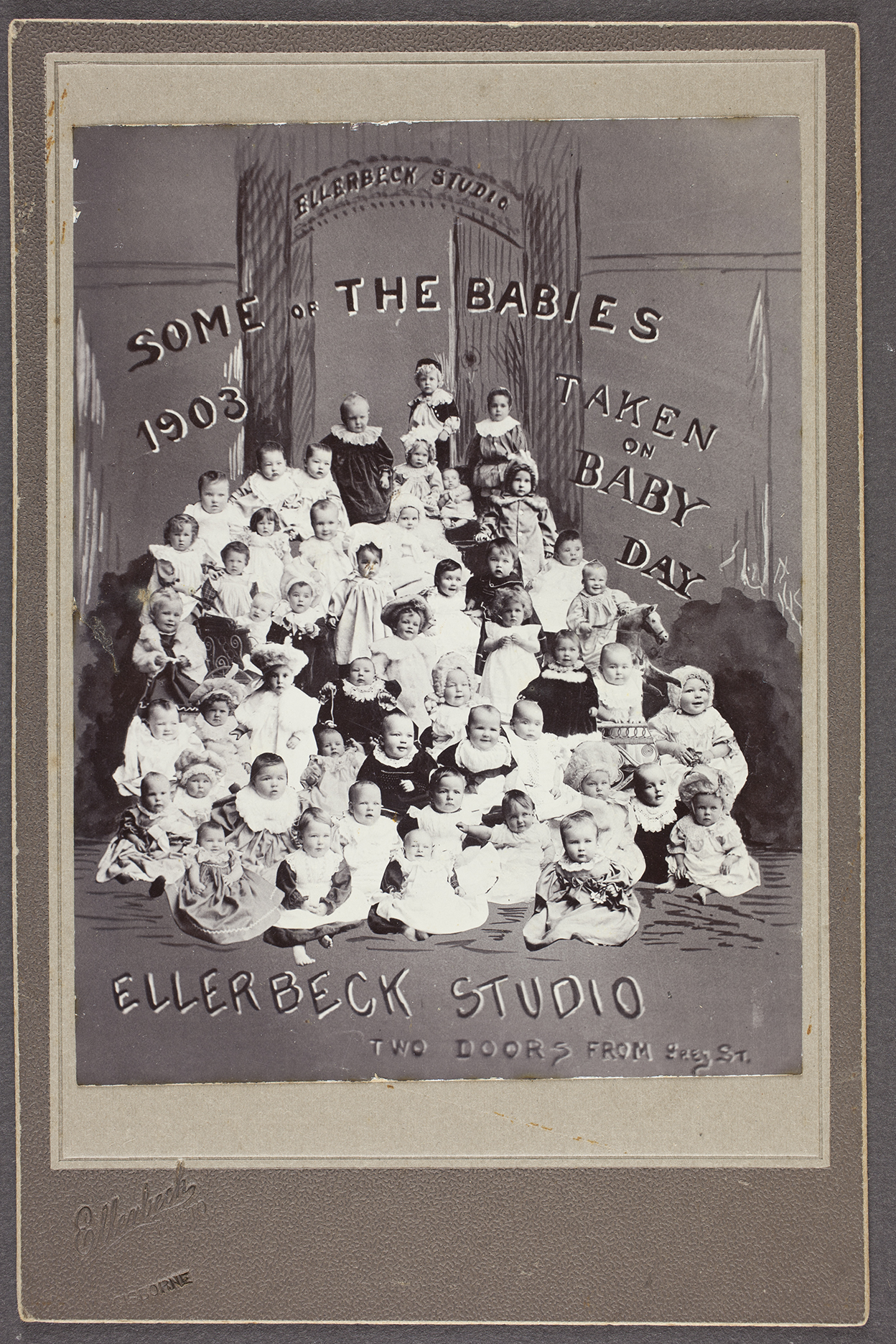 Composite image of some of the babies photographed on 'Baby Day', 16 September 1903 Original image held by Tairāwhiti Museum, Gisborne New Zealand ref: 2018.60.1, 651-30